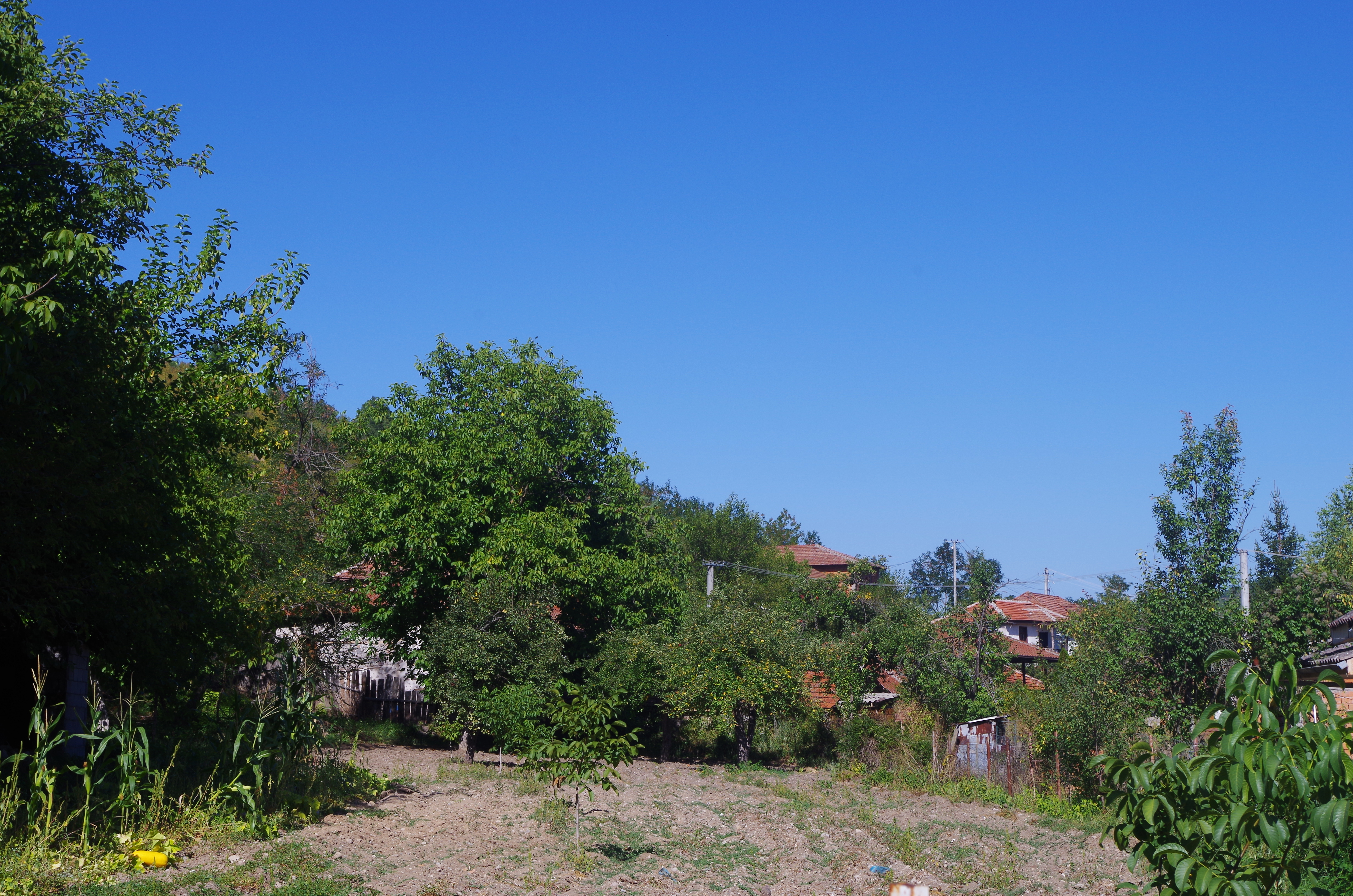 View of the village of Krnjevo